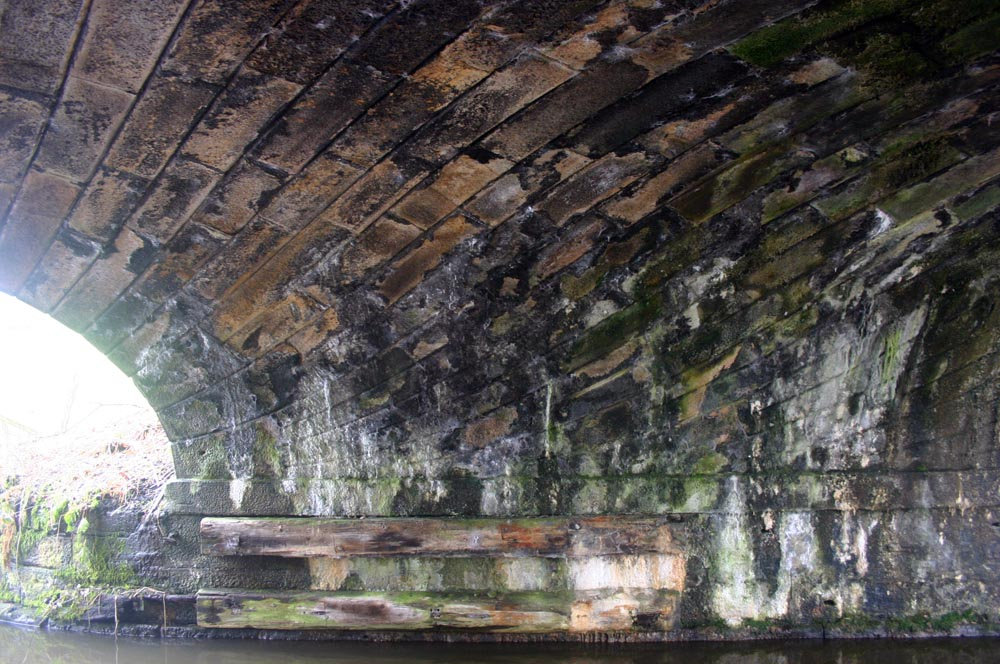 Equilibrated skew arch bridge carrying the Bolton and Preston Railway over the Leeds and Liverpool Canal. Built in 1838 by Alexander James Adie to a logarithmic pattern proposed by mathematician Edward Sang three years earlier, the stone work is laid out very differently from the usual English helicoidal method. View of the intrados.